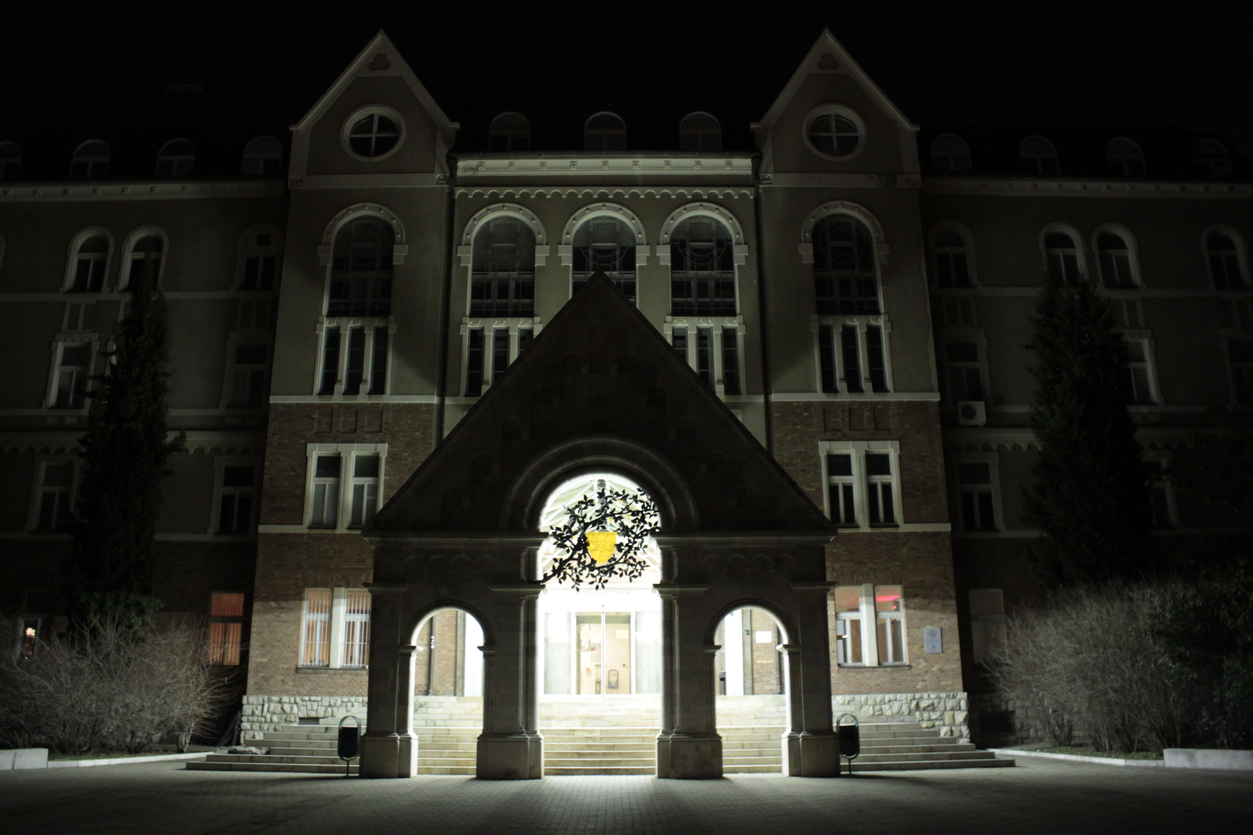 University of Pécs, main building of the sciences and humanities faculties.